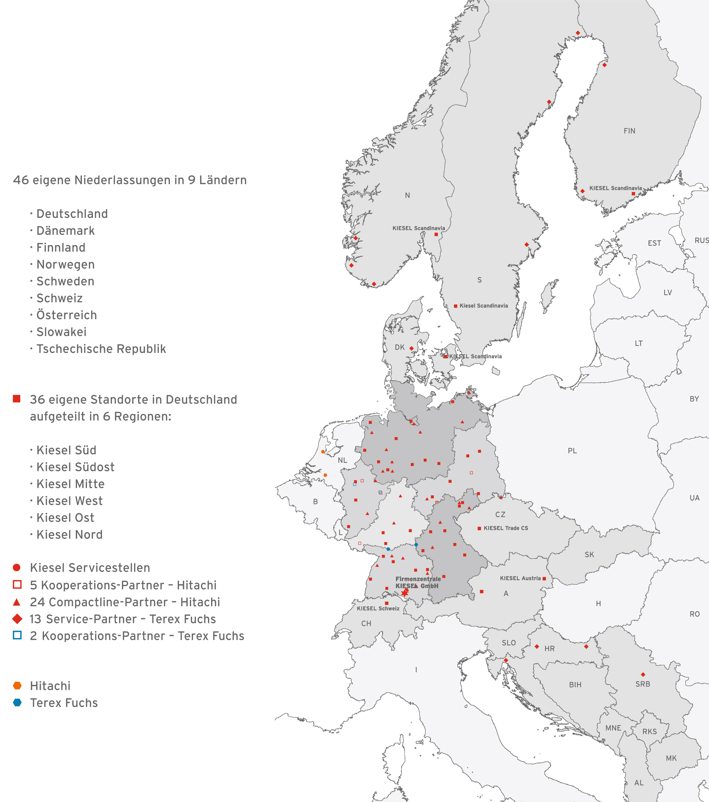 Kiesel locations and partners in Europe